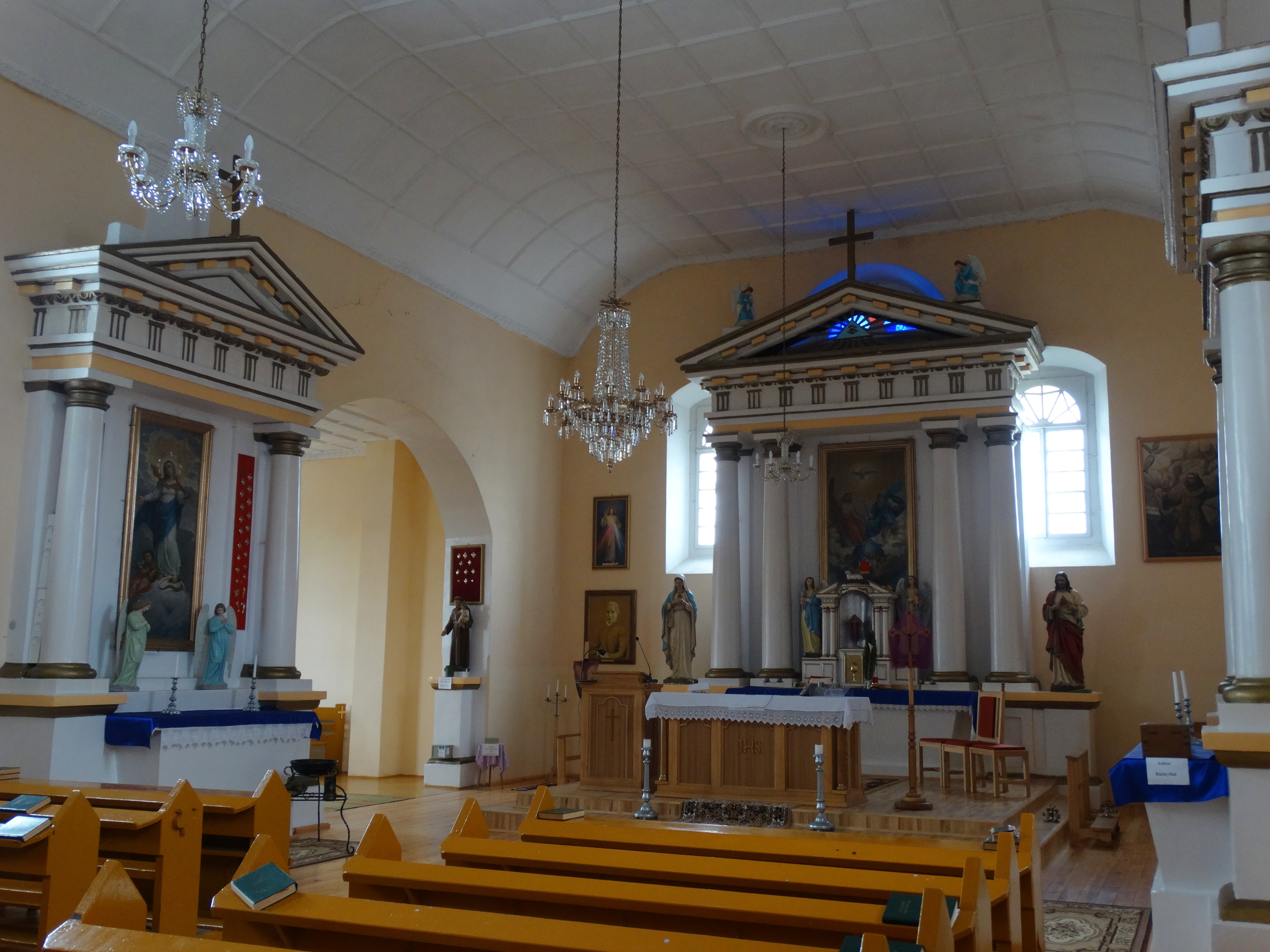 Catholic church interior, Sidabravas, Radviliškis District, Lithuania